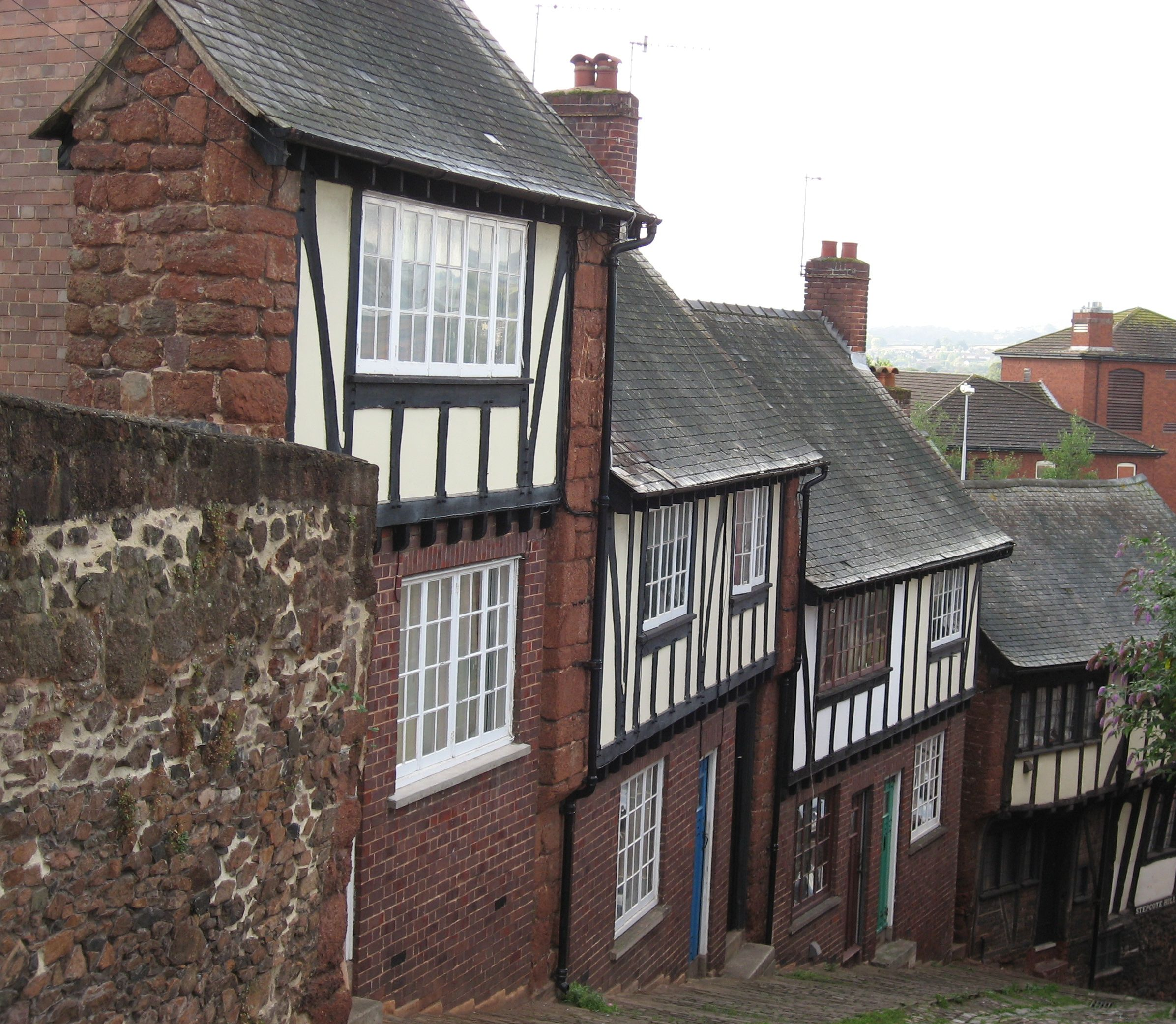 Houses in Stepcote Hill, Exeter